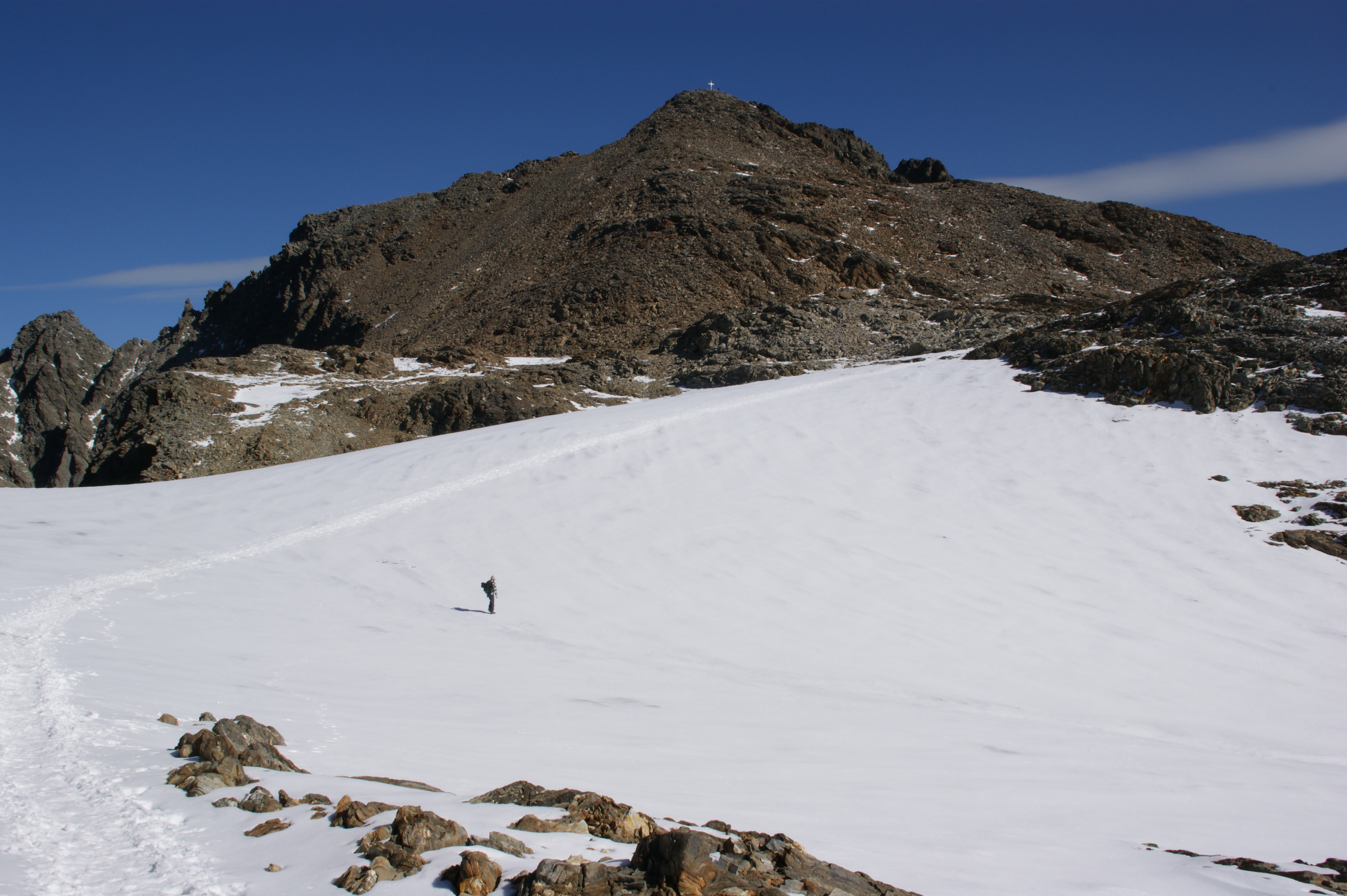 Summit of Petzeck (Carinthia, Austria) from west